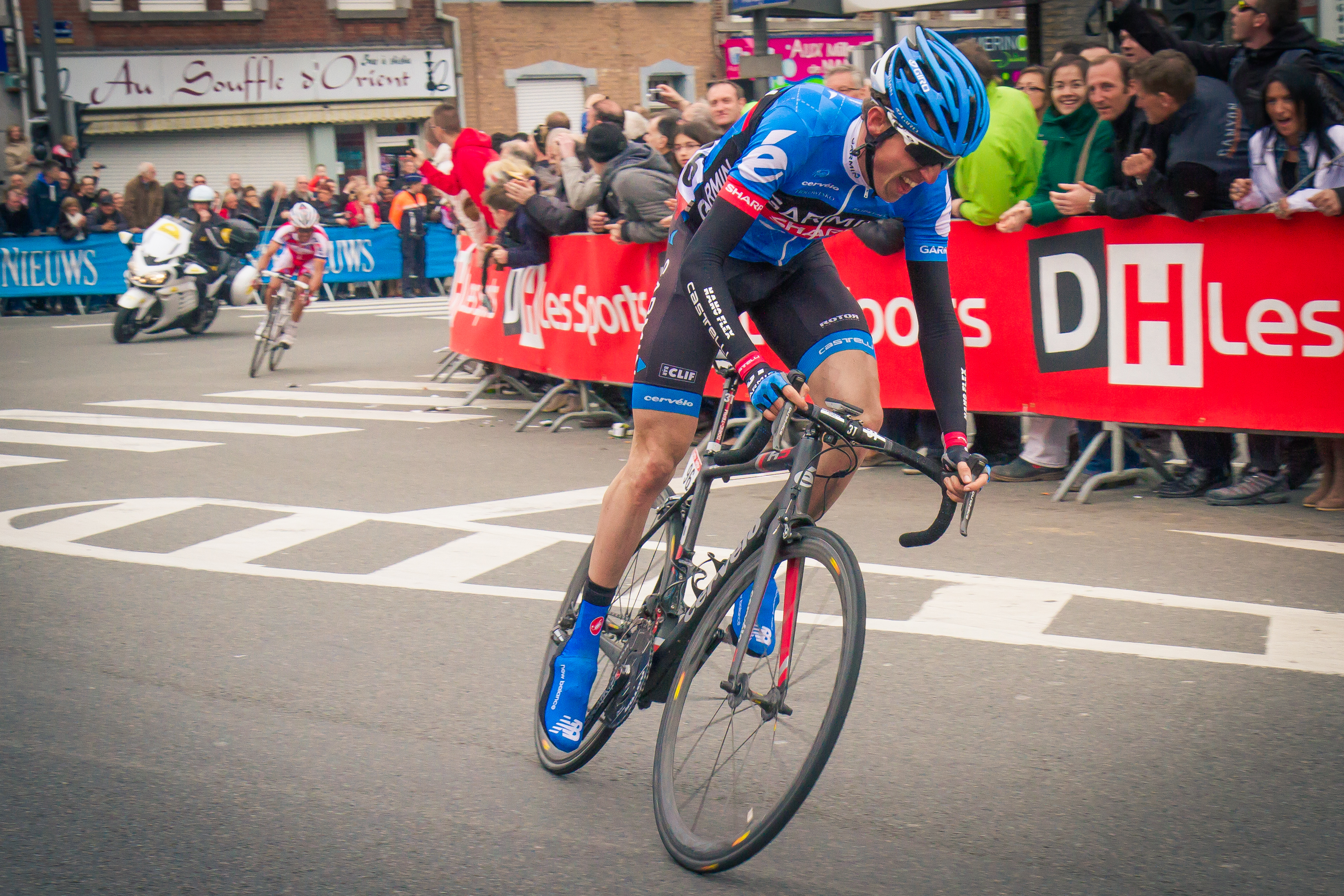 Dan Martin (1st) of Garmin Sharp (GRS) coming out of the final turn before the finish line, just ahead of Joaquin Rodriguez Olivier (2nd) of Katusha. Liege-Bastogne-Liege race, 2013